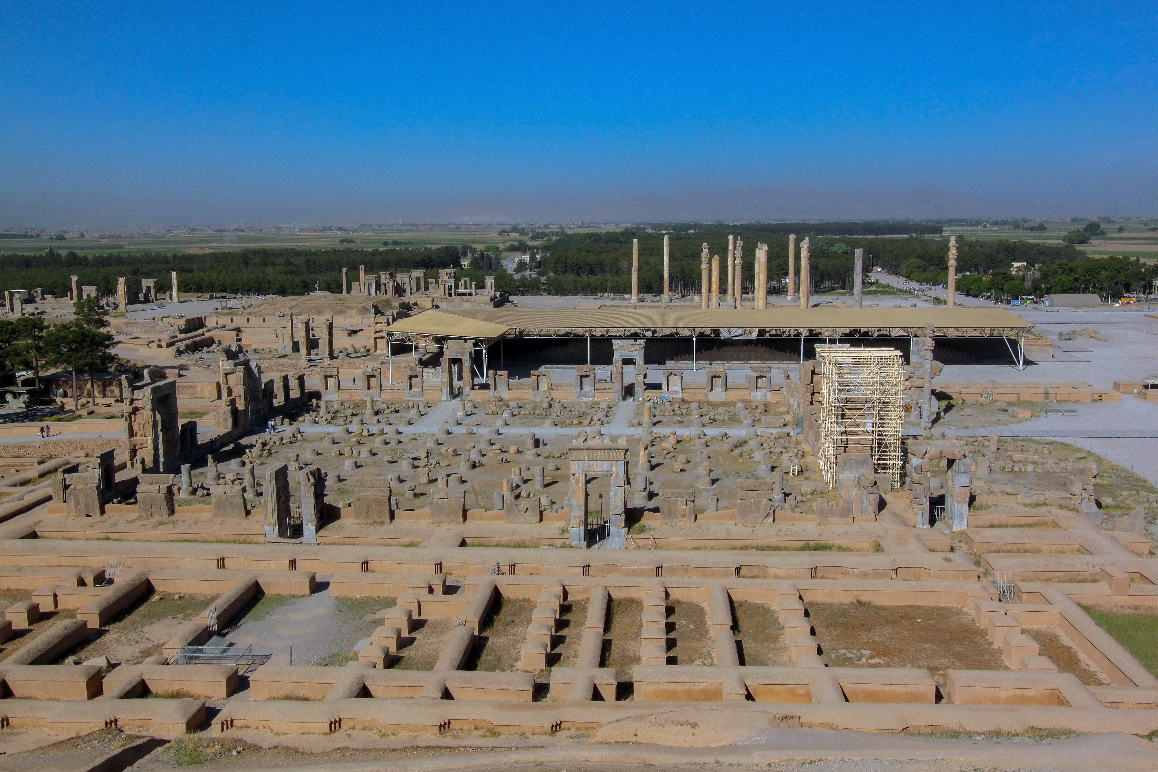 Persepolis was the ceremonial capital of the Achaemenid Empire (ca. 550–330 BC). It is situated 60 km northeast of the city of Shiraz in Fars Province, Iran.